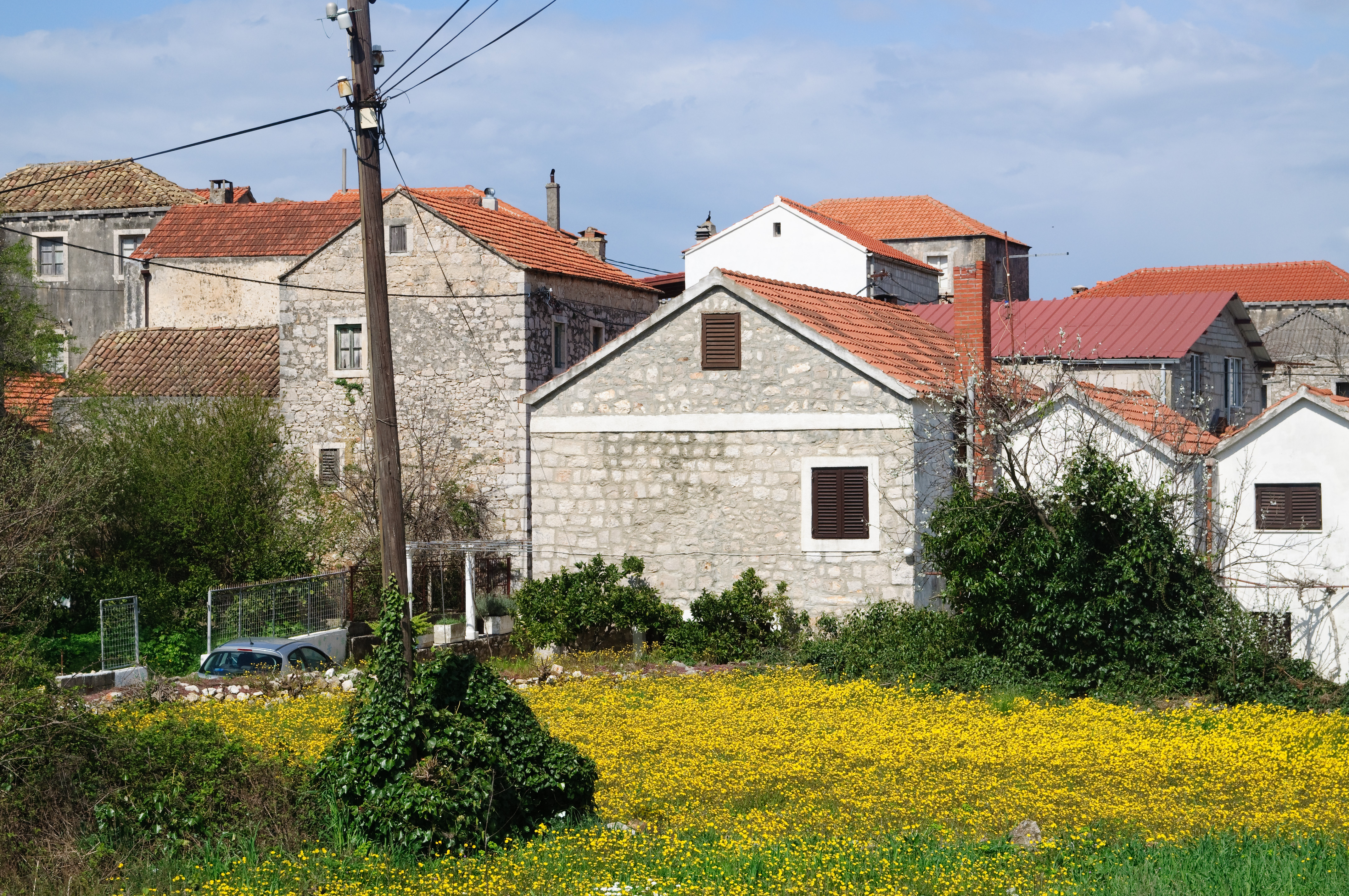 Buildings in the village of Janjina, Croatia.